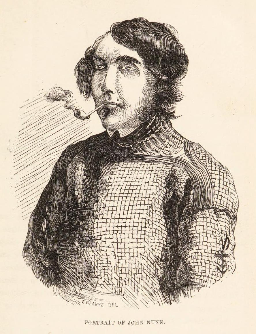 A portrait of John Nunn of Ipswich (UK), who was shipwrecked while whale fishing in the Kerguelen Islands in 1825, and whose account of his adventures formed the basis of the Narrative of the Wreck of the Favorite retold by and published for Dr William Barnard Clarke (physician) of Ipswich in 1850; the portrait drawn by his brother Dr Edward Clarke.